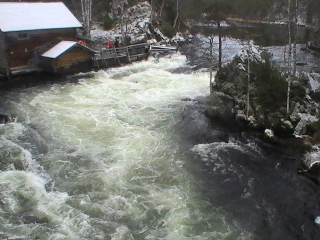 Myllykoski rapid at Kitkajoki, Kuusamo. The photo has took from suspension bridge, which crosses the rapid.